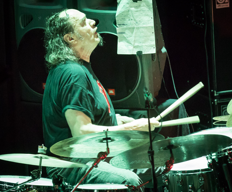 Bendik Hofseth Band at the stage of Cosmopolite. The concert took place on 10. May 2017 in Oslo. The concert consisted of the original line-up from Hofseth's 1991 album "IX".Lineup:Bendik Hofseth (saxophone)Paolo Vinaccia (drums)Eivind Aarset (guitar)Knut Reiersrud (guitar)Audun Erlien (bass guitar)Øystein Sevåg (keyboard)Reidar Skår (keyboard)